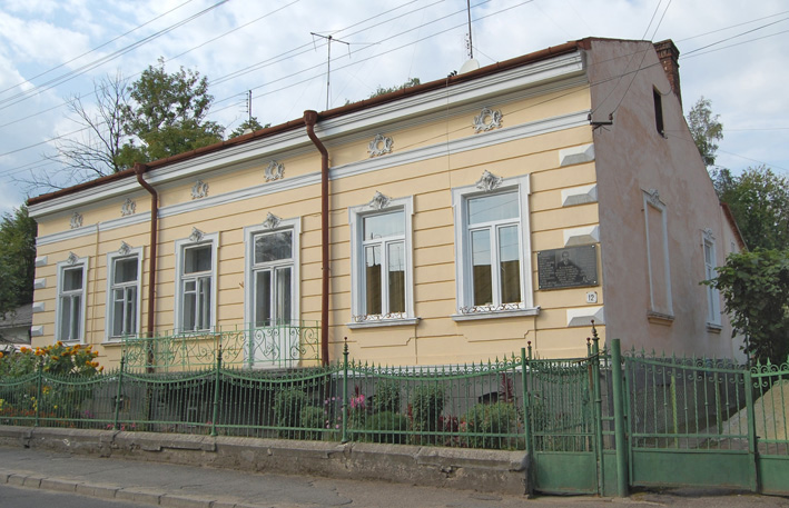 Bruno Schulz's House in Drohobych, Bednarska Street (early Florianska Str.)